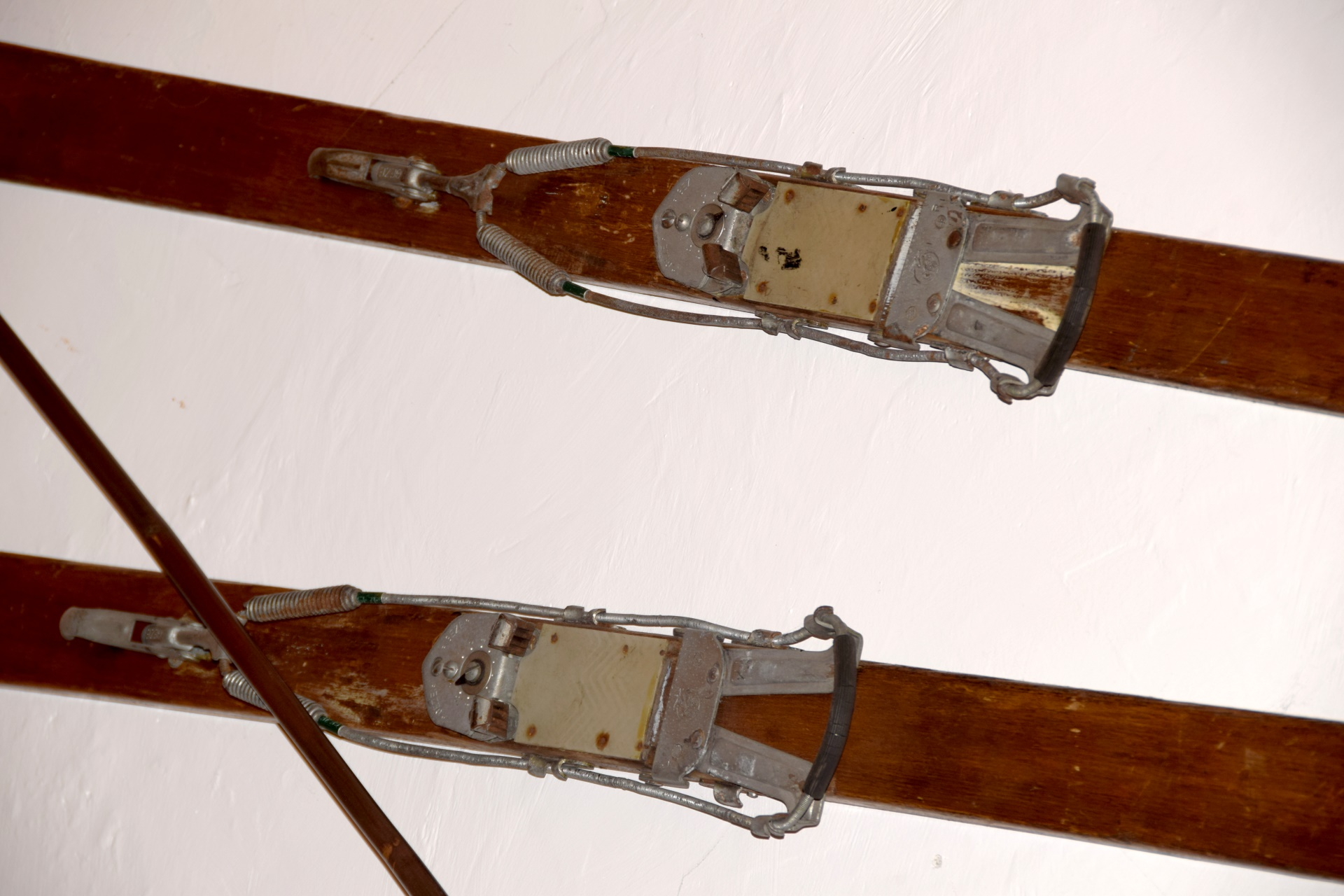 Historic Skiing: Binding from the middle of the 20. Centuty